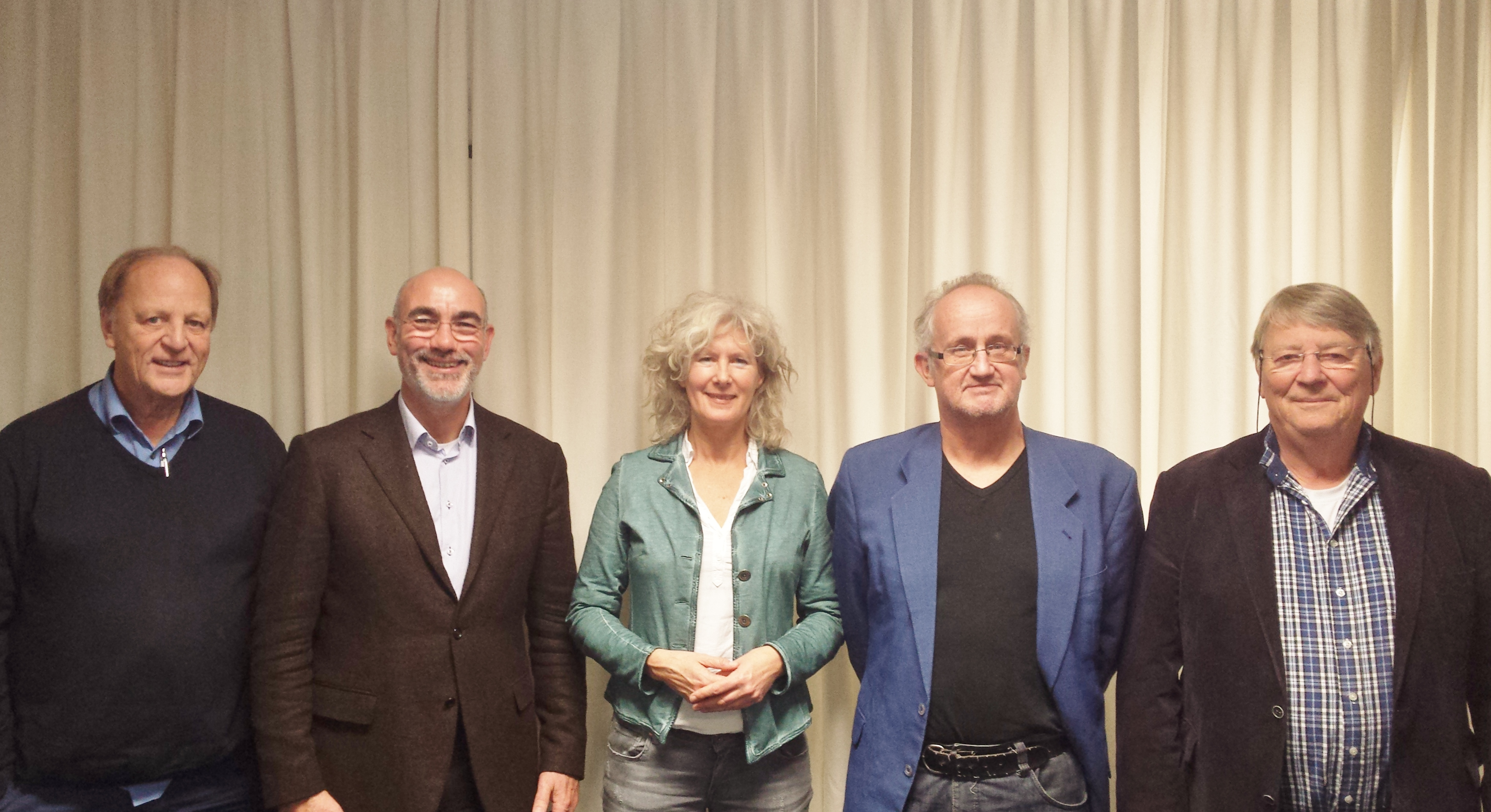 Board members of the New Republican Society, 2015–2018.